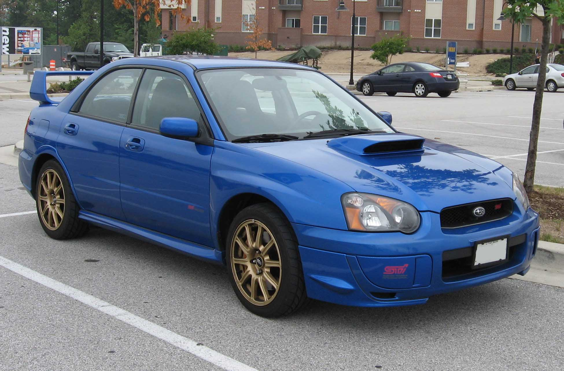 2004-2005 Subaru WRX STi photographed in USA.